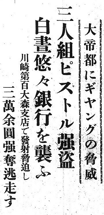 Tokyo Asahi Shimbun newspaper clipping (7 October 1932 issue)